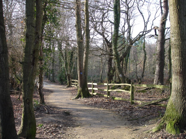 High Woods Nr Little Common East Sussex. Woodland near Peartree Lane.While we were in this wood we saw a white Squirrel which I took a photo of.